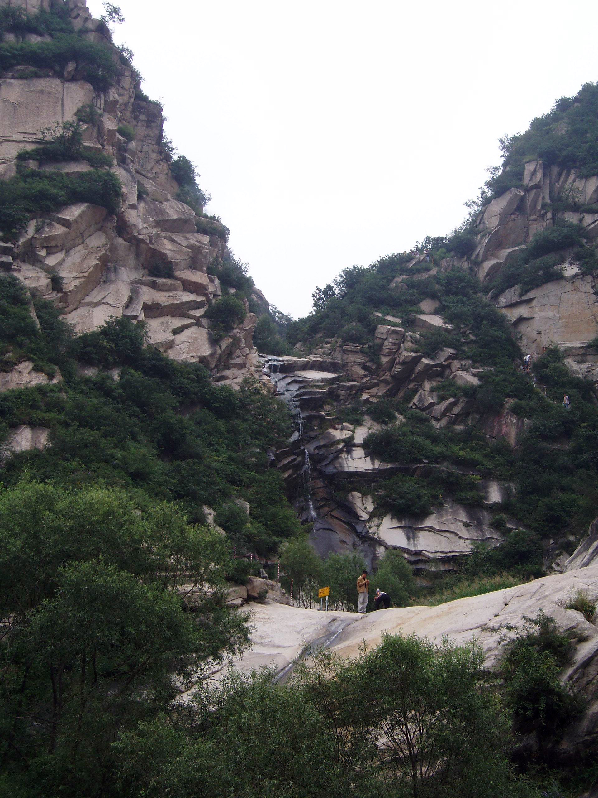 Taihang Shan Mountains in North China